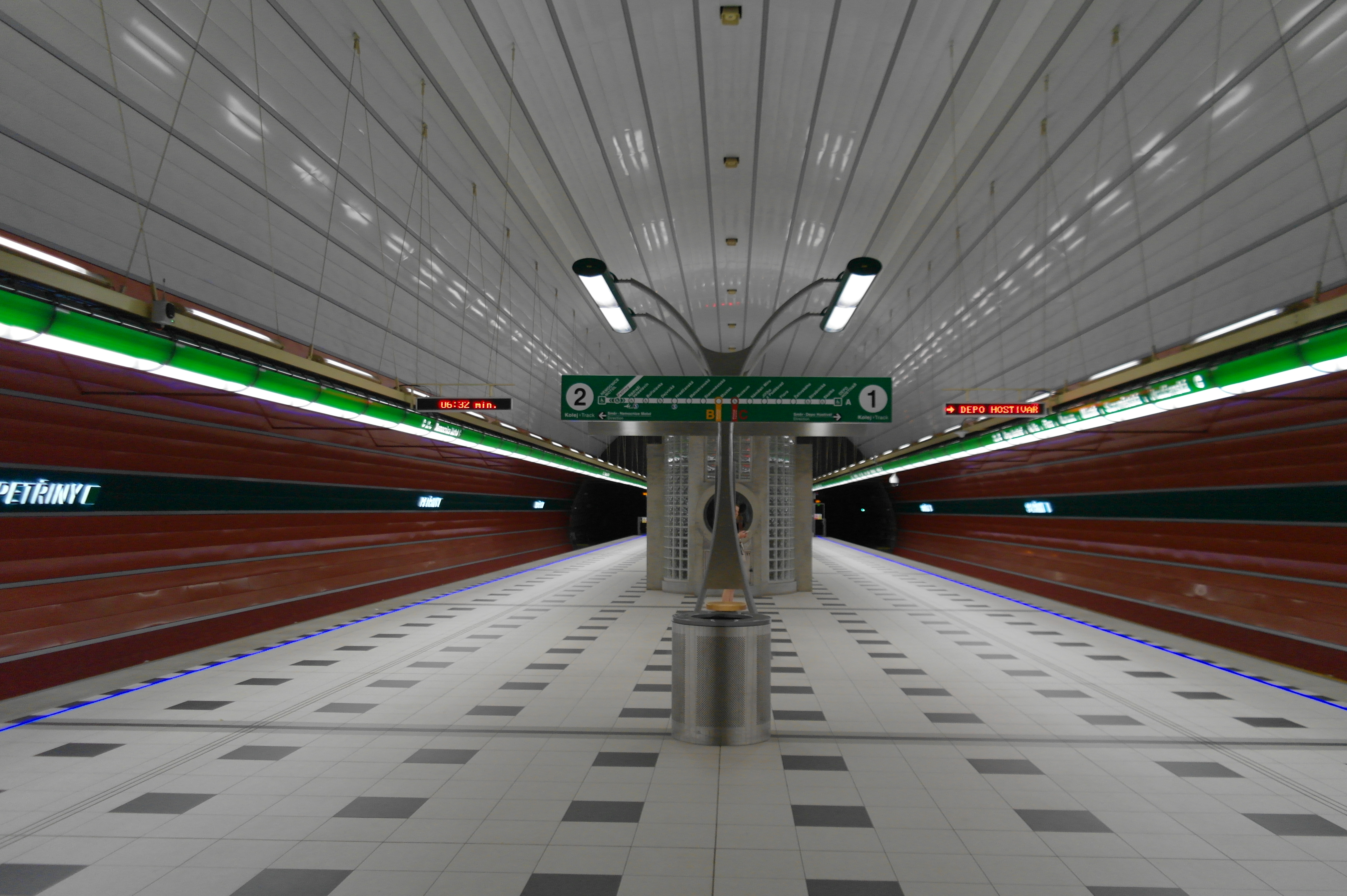 Petřiny metro station